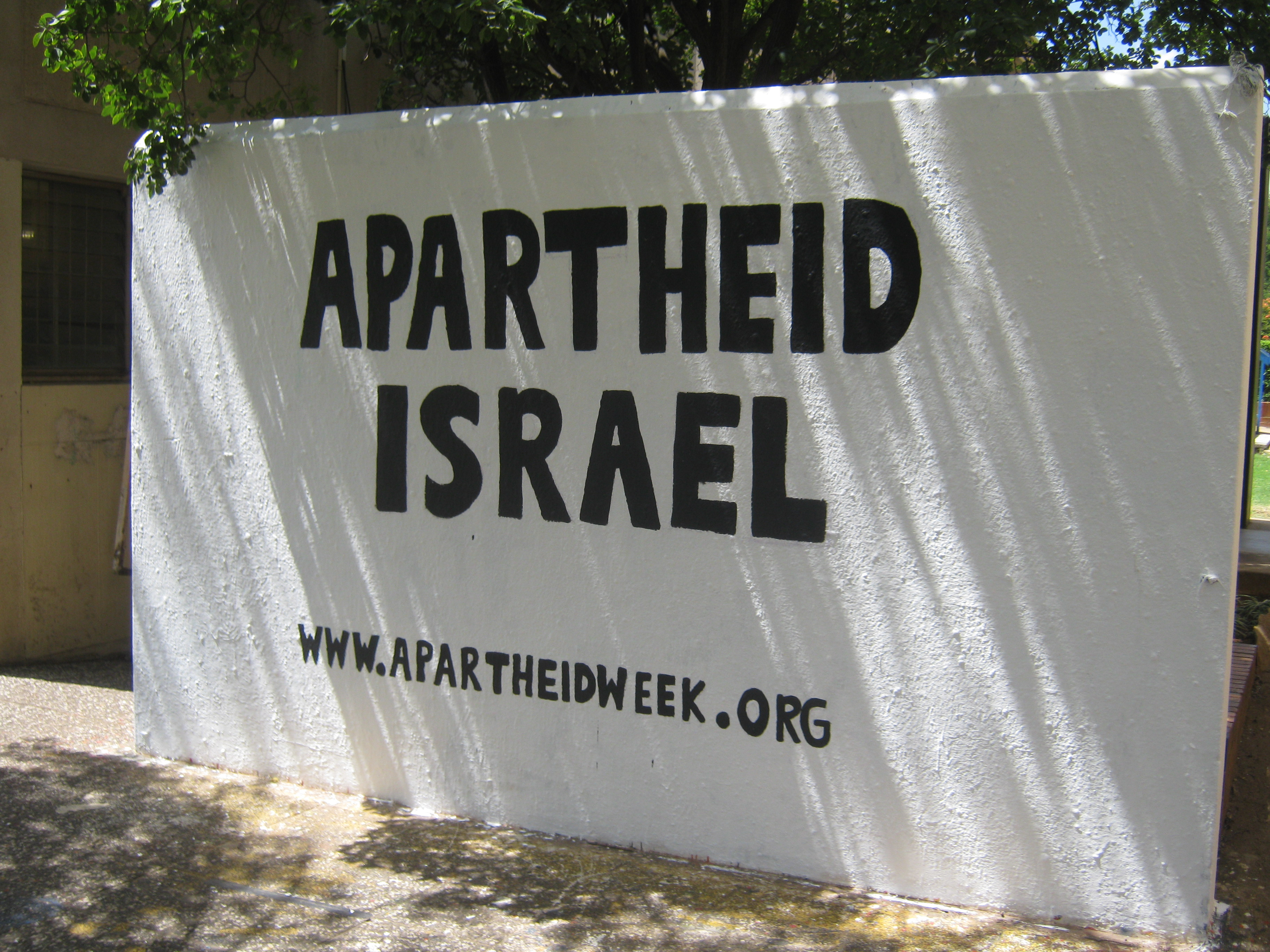 A pro-Palestinian message on the graffiti wall at the University of the Witwatersrand, Johannesburg.